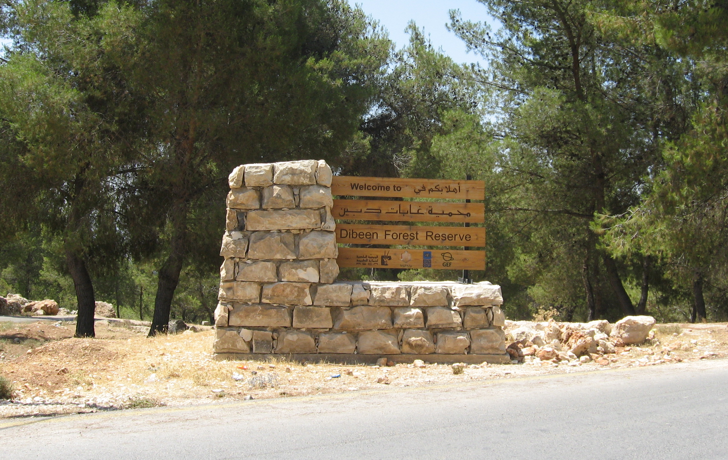 Dibeen forest, main entrance, 2008.